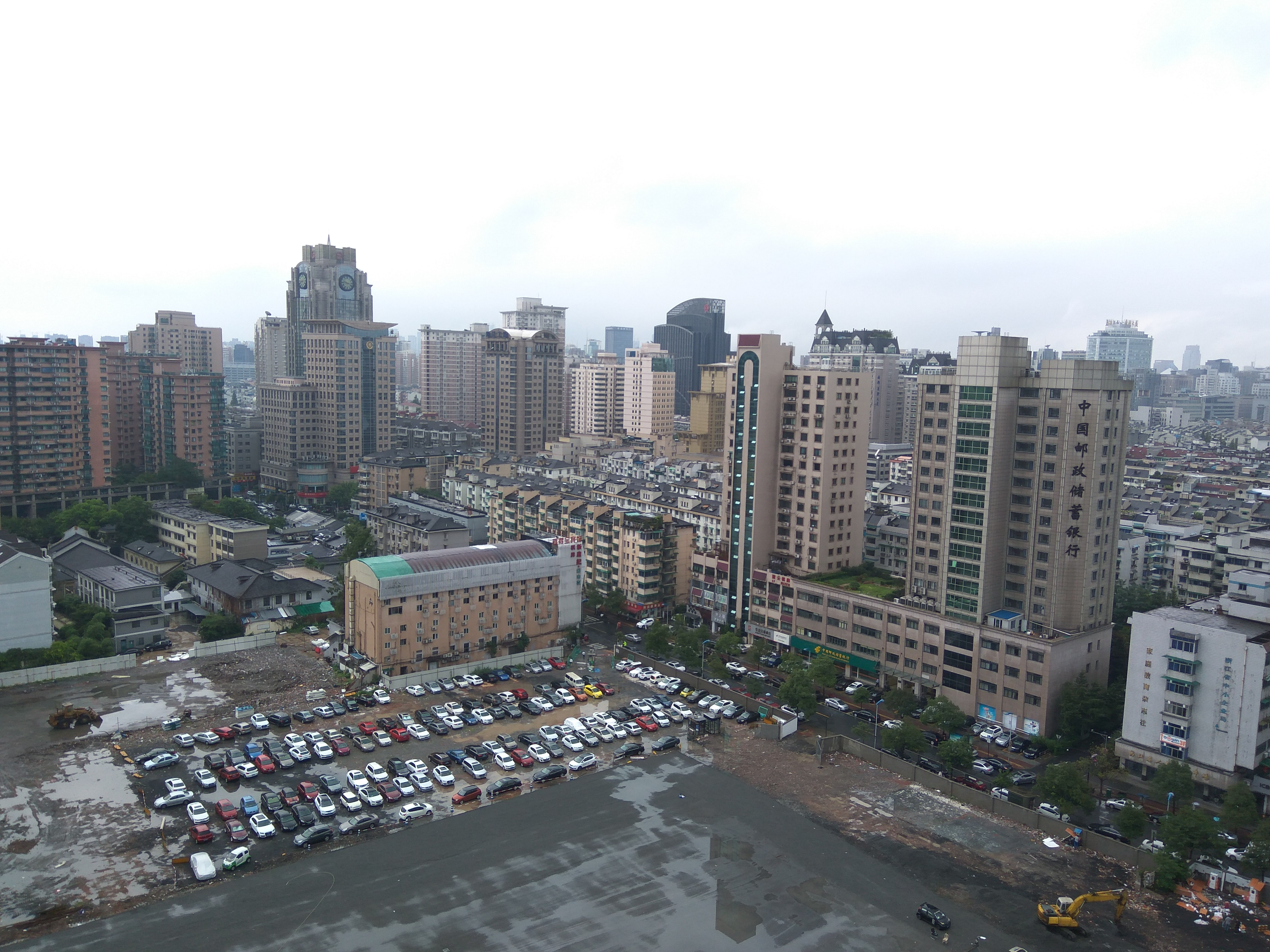 201608 Baijingfang Parking Lot